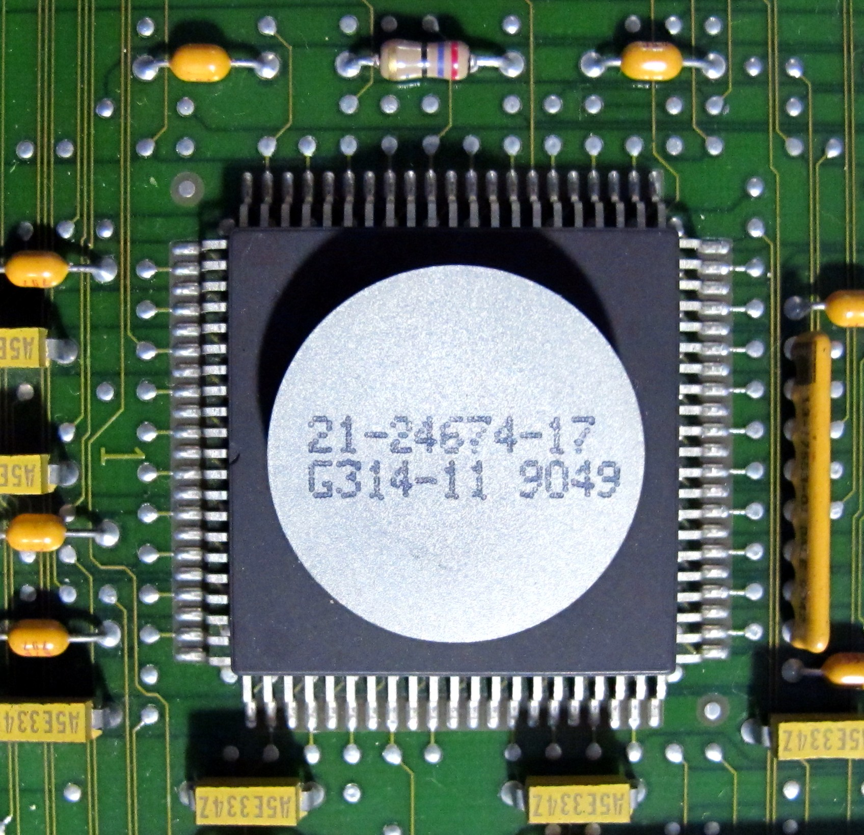 DEC CPU CVAX 21-24674-17 (CVAX-60) in a CQFP-84; Used in a MicroVax 3100; Max clock 16 MHz, 32 Bit data bus; Transistor count aprrox: 180.000